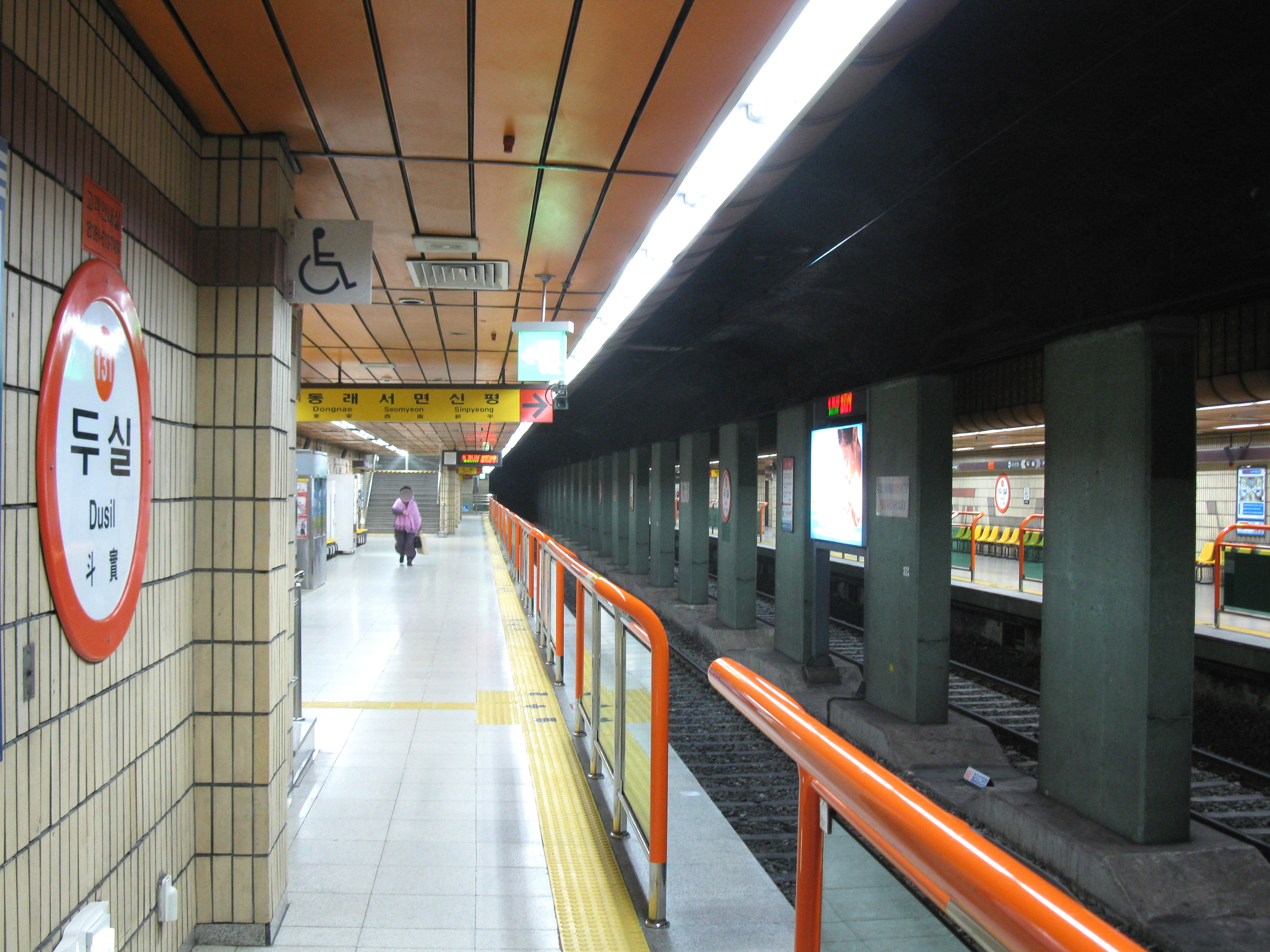 Dusil Station platform (Busan Subway Line 1)